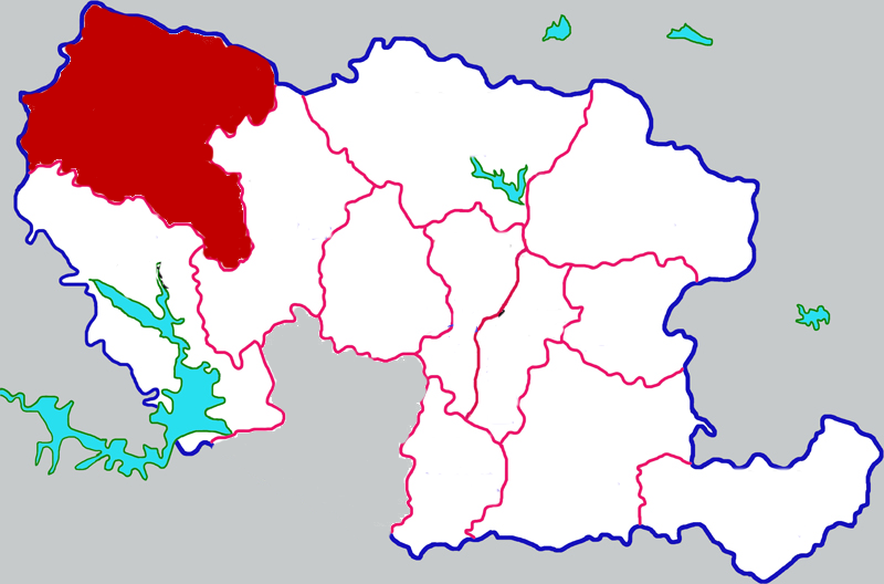 Location of Xixia county in Nanyang city, China